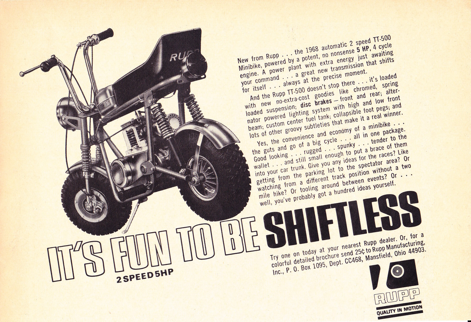 Original Rupp TT-500 ad. Other information Full ad with no copyright notice.